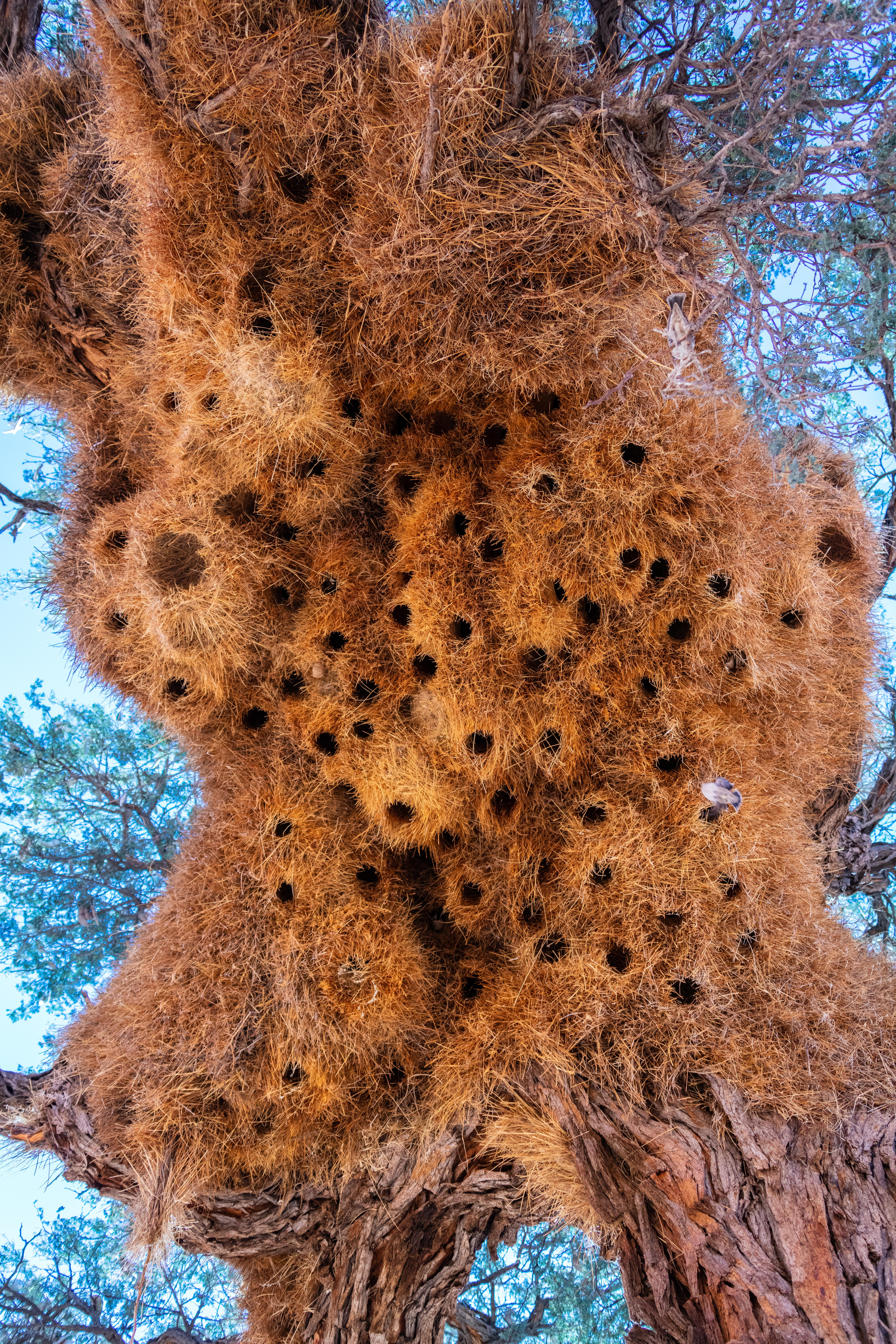 Sociable weaver nest (Philetairus socius), Sossusvlei, Namibia